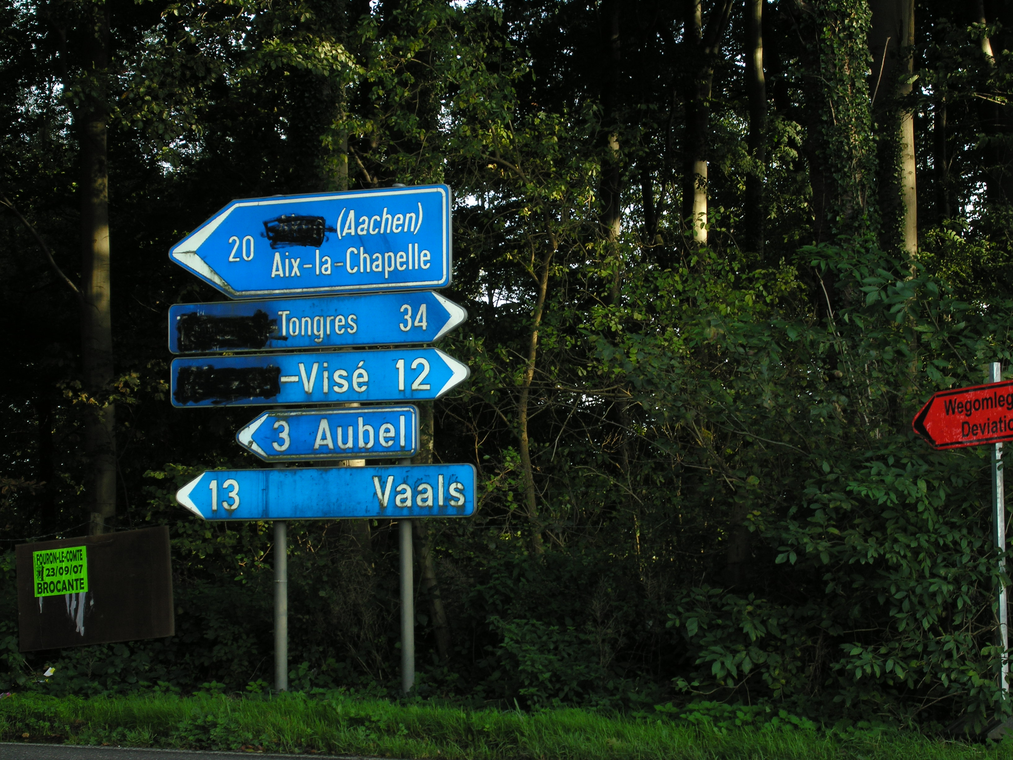 Voeren (Belgium): Language conflict